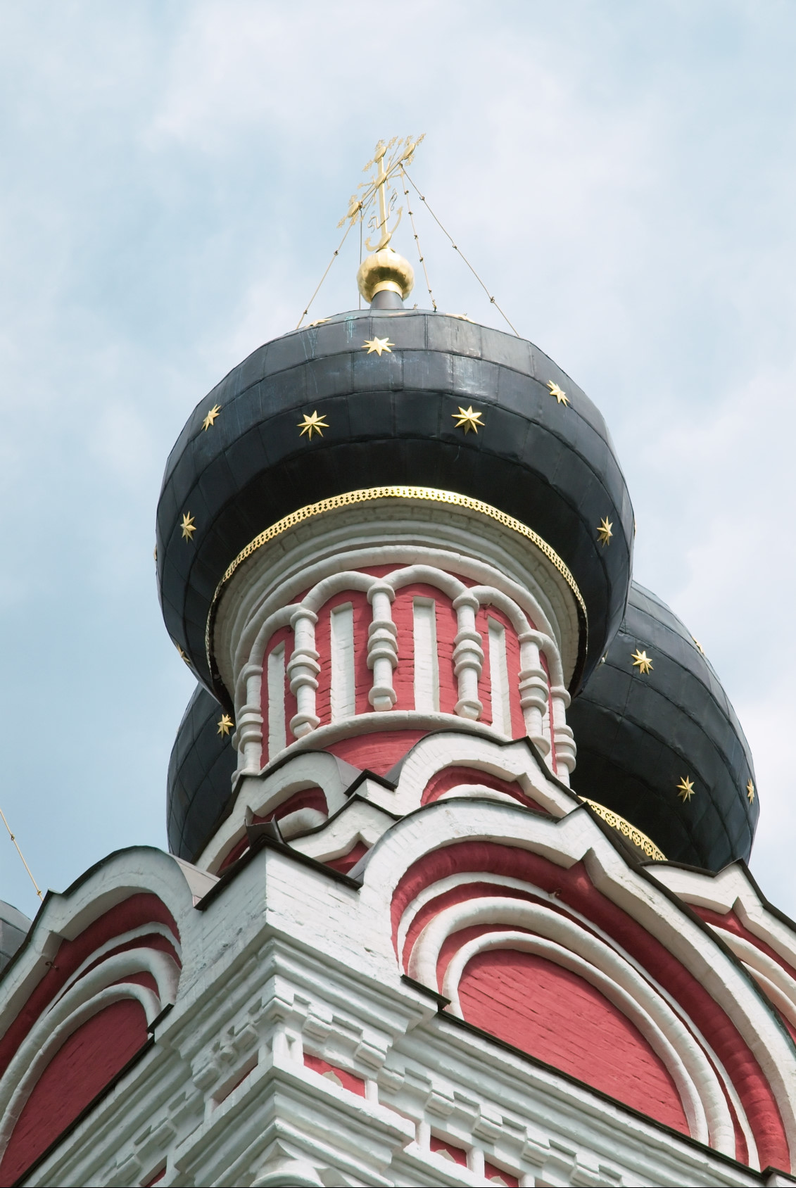 Church of Tikhvin icon of Theotokos in Alekseyevskoye (Moscow)